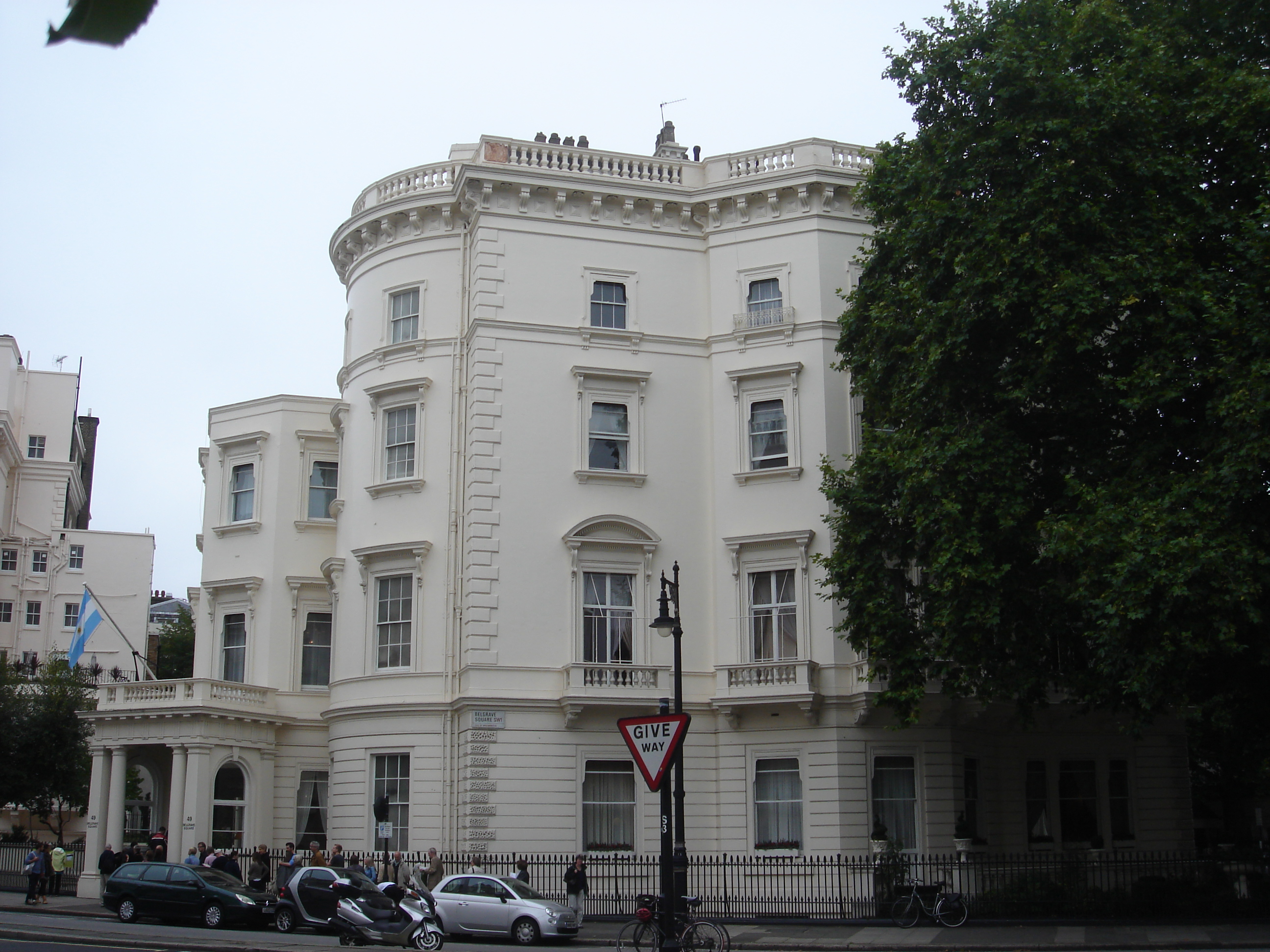 49 Belgrave Square, Knightsbridge SW1